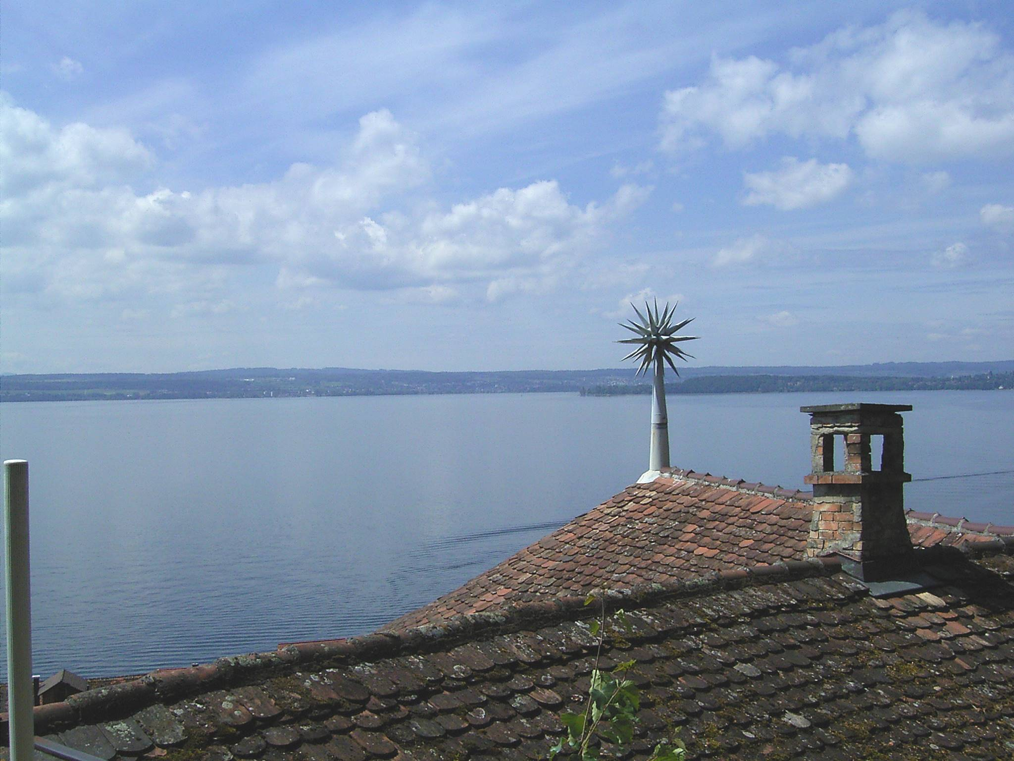 View from the Meersburg castle to the Mainau island